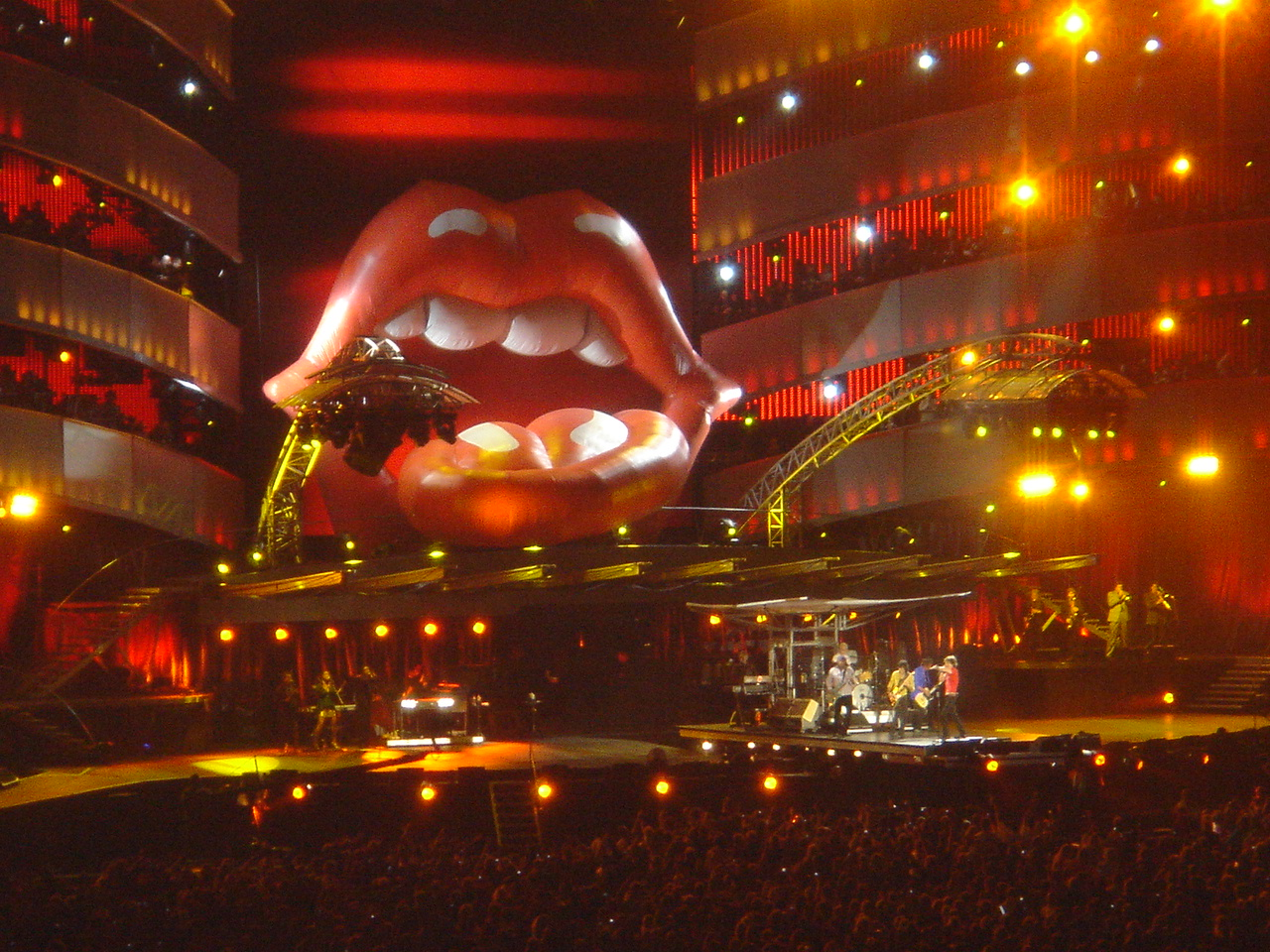 Stones on stage during Bigger Bang tour, Twickenham, 2006